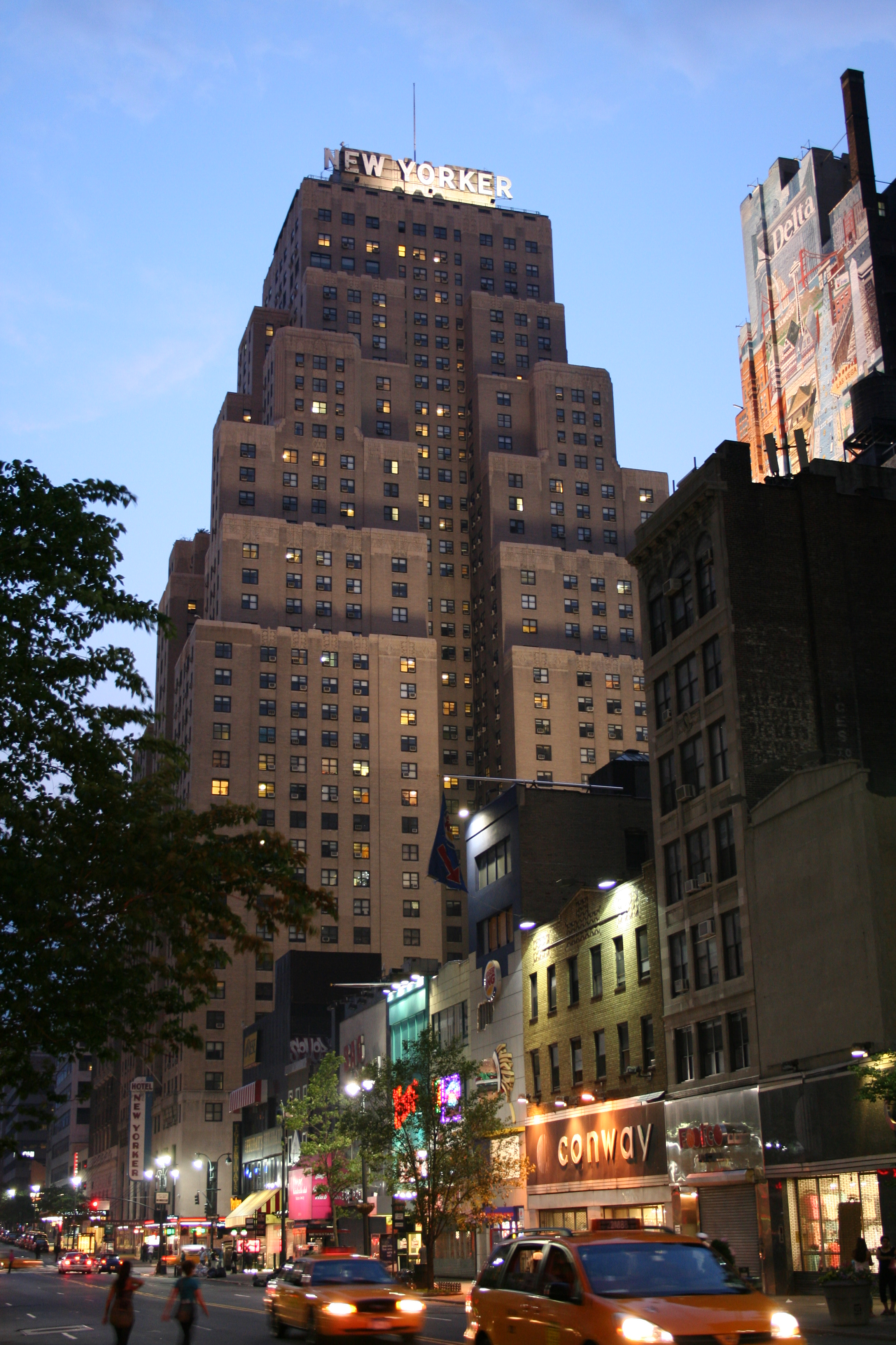 The New Yorker Hotel, NYC at dusk, looking west along 34th Street